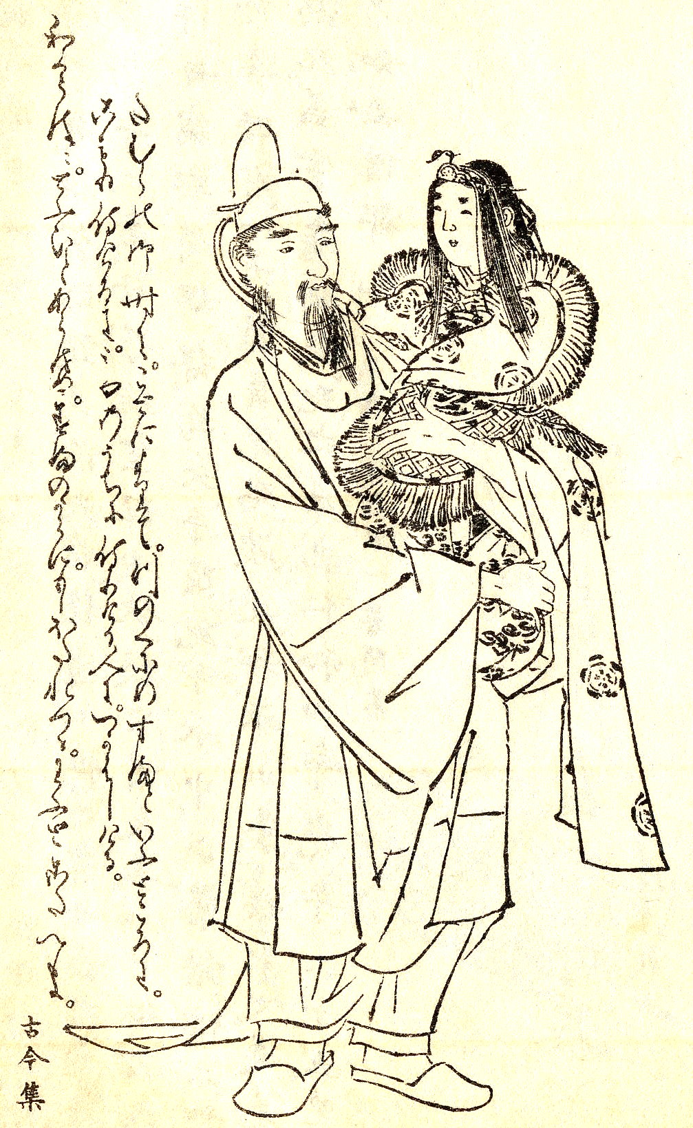 Ariwara no Yukihira(在原行平) was a Japanese court noble and poet in Heian period.